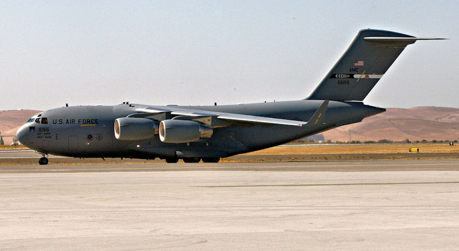 C-17 Assigned to Travis AFB, California